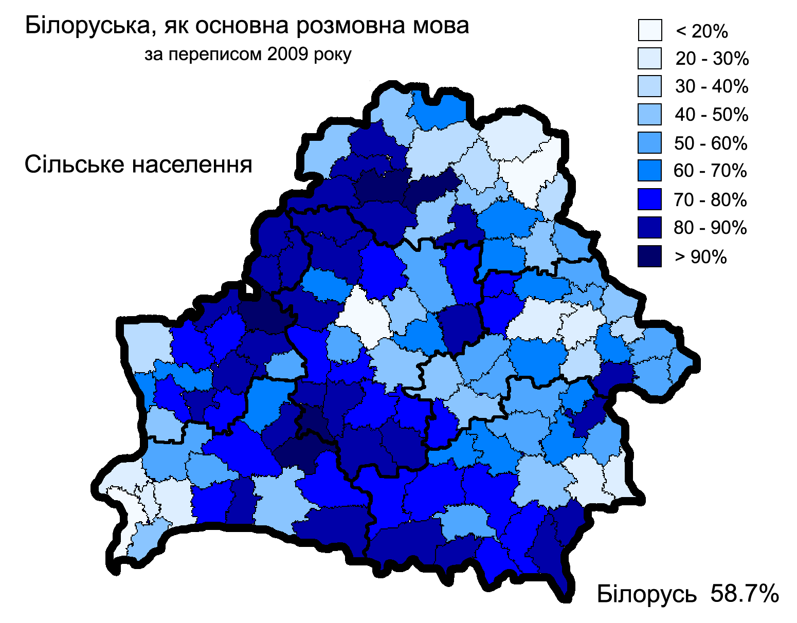 Belarusian as a "language spoken at home" among the rural population according to the 2009 Belarus Census